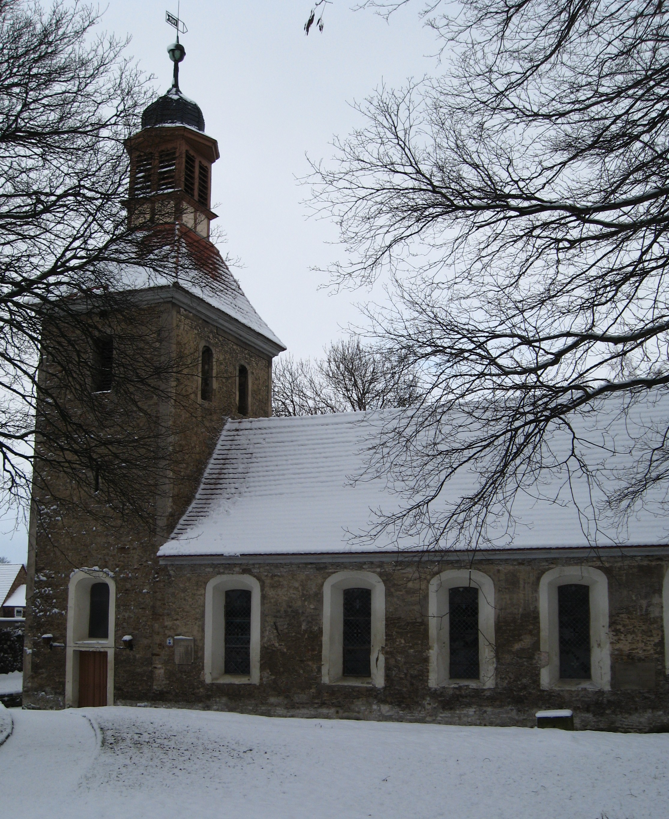 Church in Trinum, Germany.